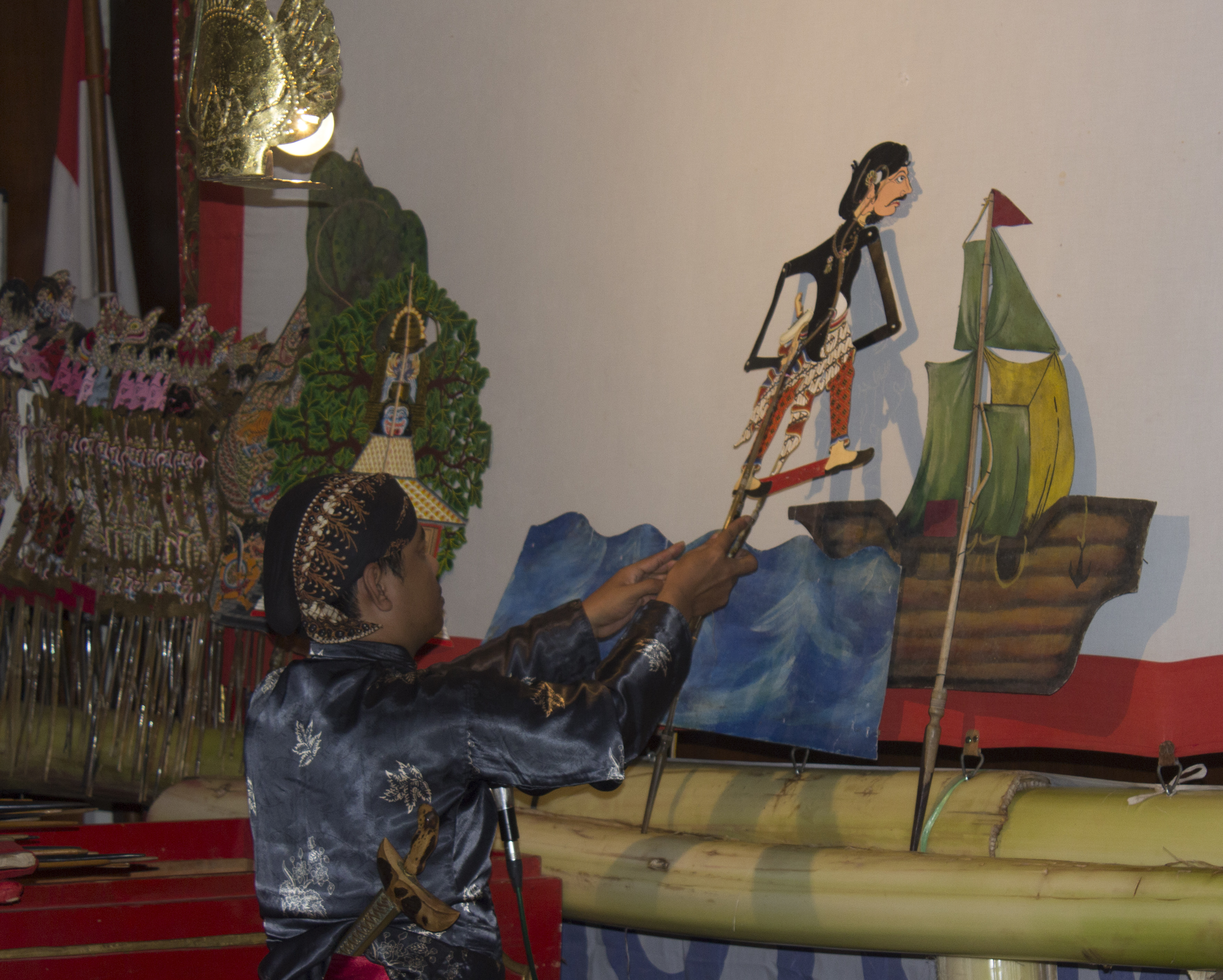 Dalang performing at Pakualaman District Office. Story is of Hamengkubuwono IX's role in the Indonesian National Revolution.